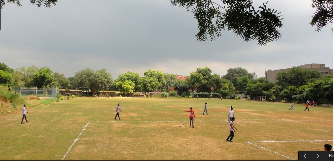 Playground of Motilal Nehru College